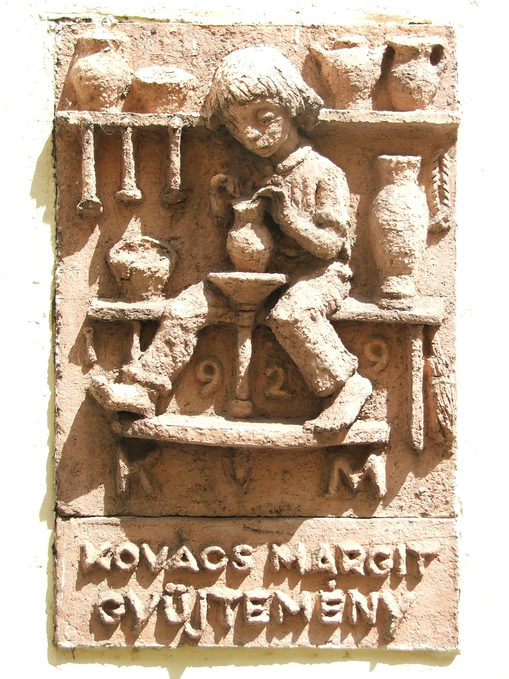 Korong Matyi, plate at the entrance into the Margit Kovács Museum in Szentendre